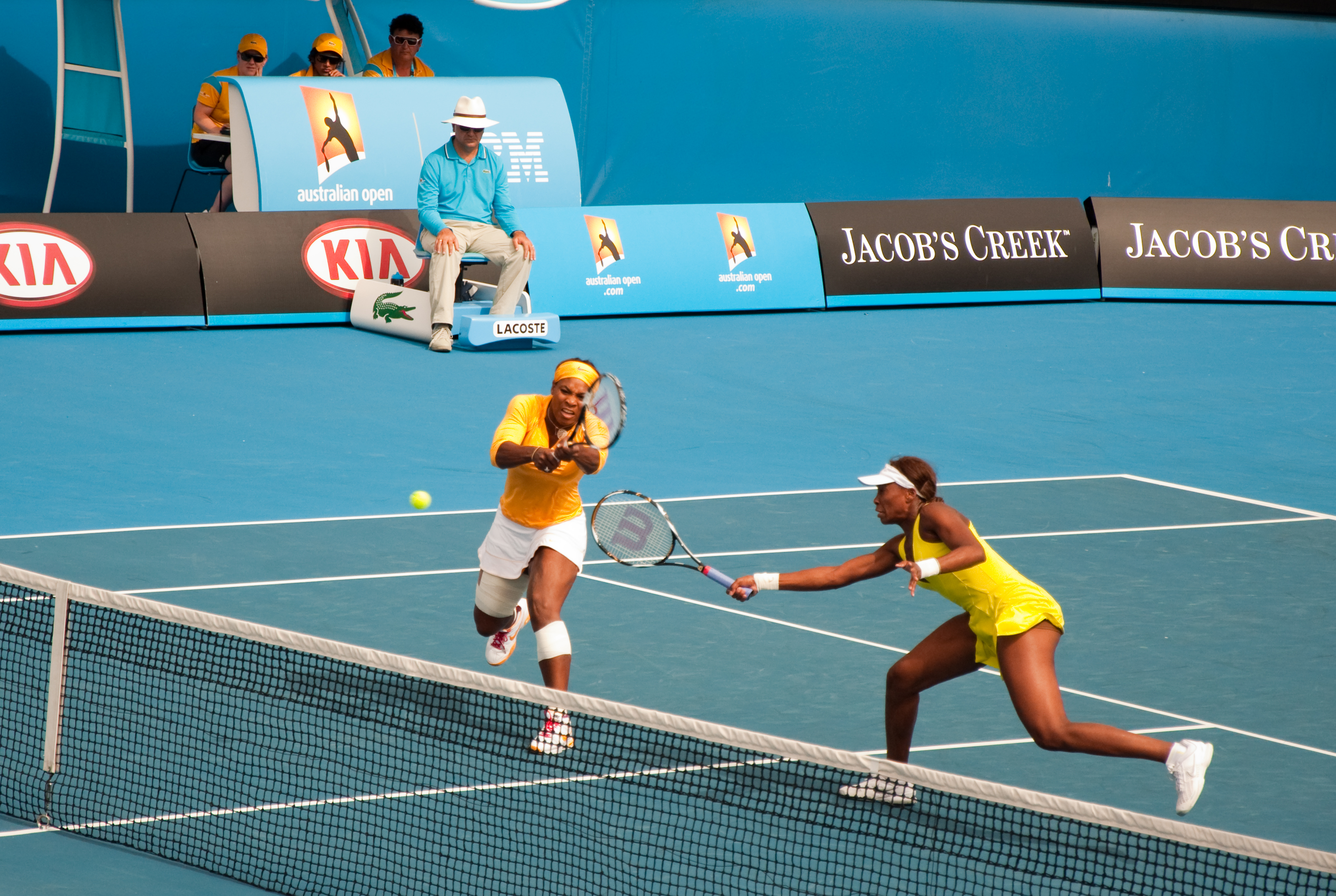 Melbourne Australian Open 2010 Venus and Serena Net